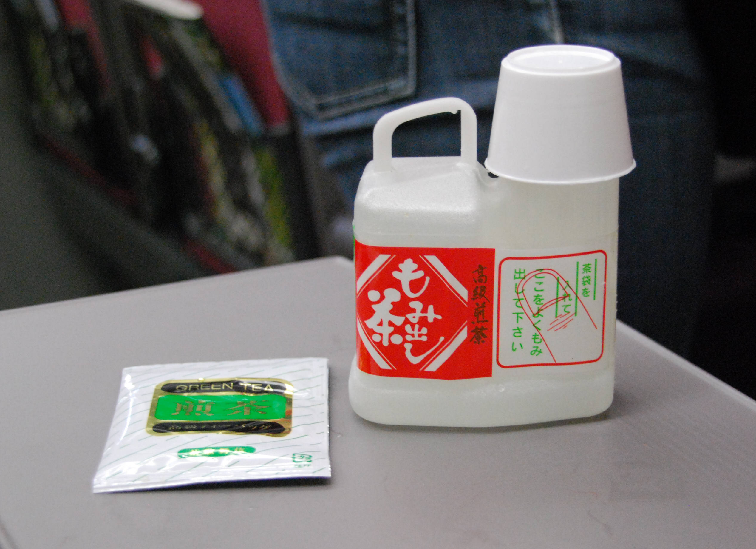 Green tea service in Japanese train,boiled water in bottle and tea bag